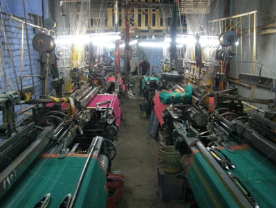 Power looms in Malegaon